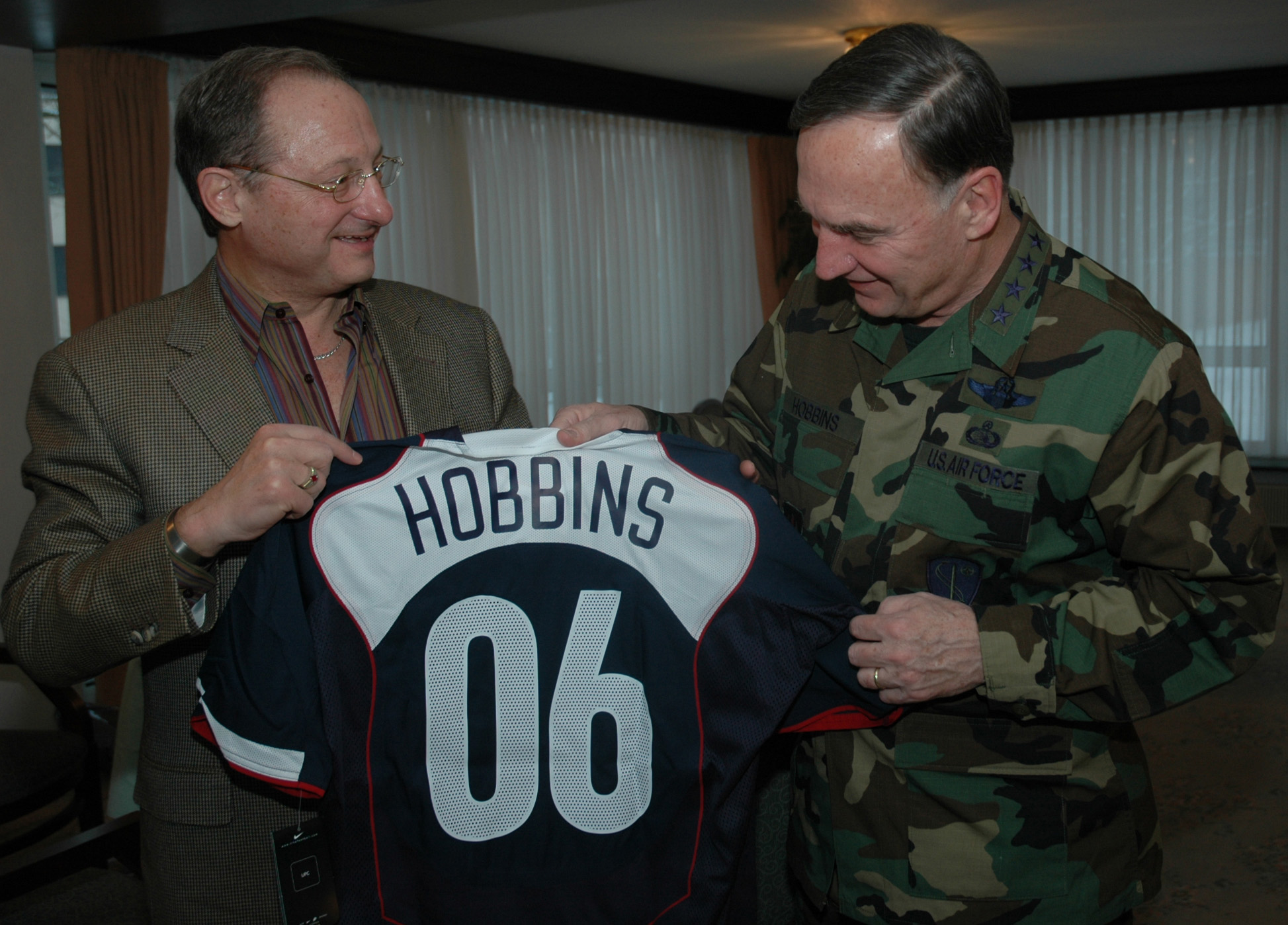 Dr. S. Robert Contiguglia, President of the U.S. Soccer Federation (left), presents Gen. Tom Hobbins, U.S. Air Forces in Europe commander, with an honorary United States national men's national soccer team jersey at Ramstein Air Force Base in Germany